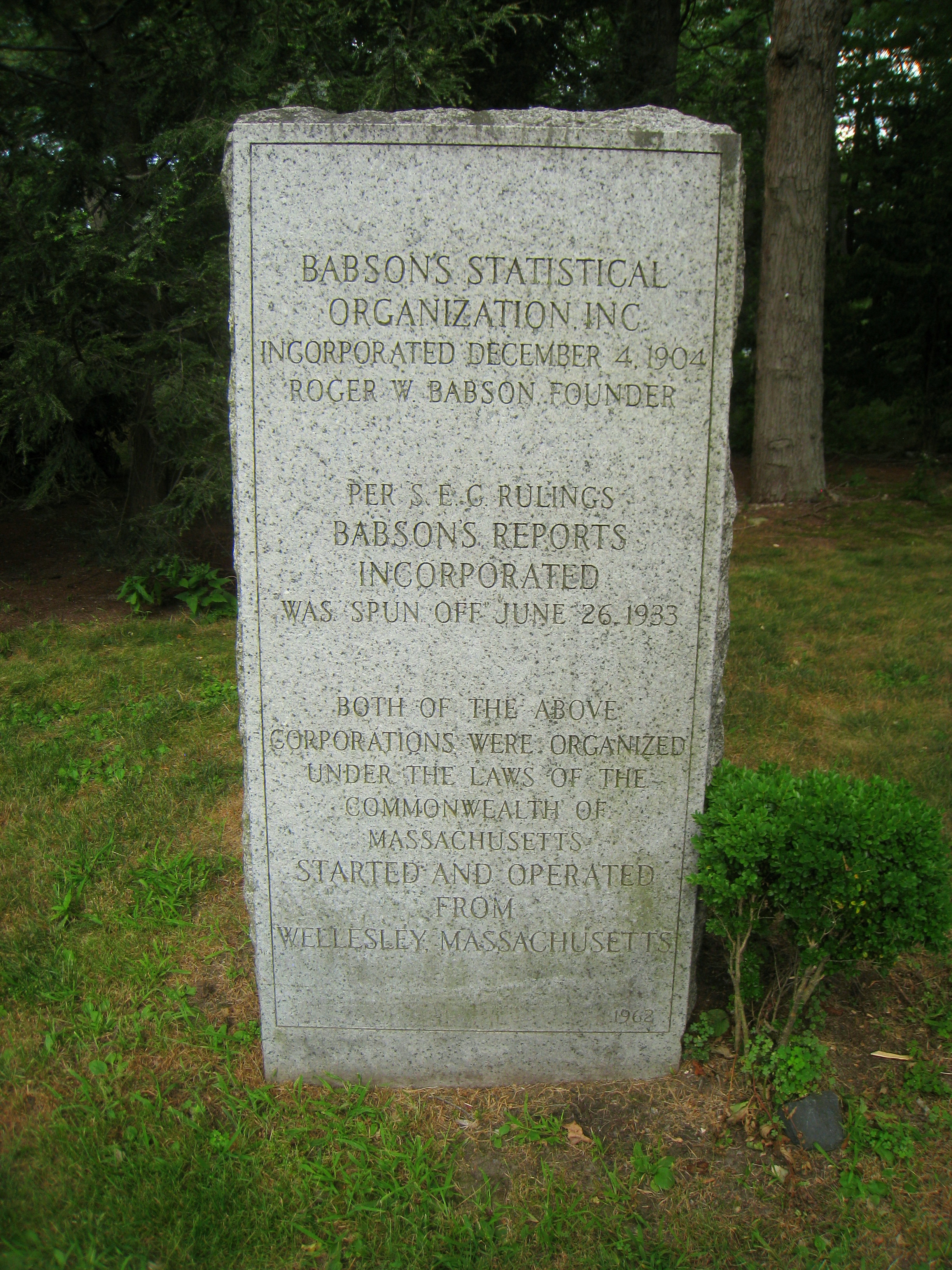 Babson's Statistical Organization plaque, Babson College, 231 Forest Street, Wellesley, Massachusetts, USA.